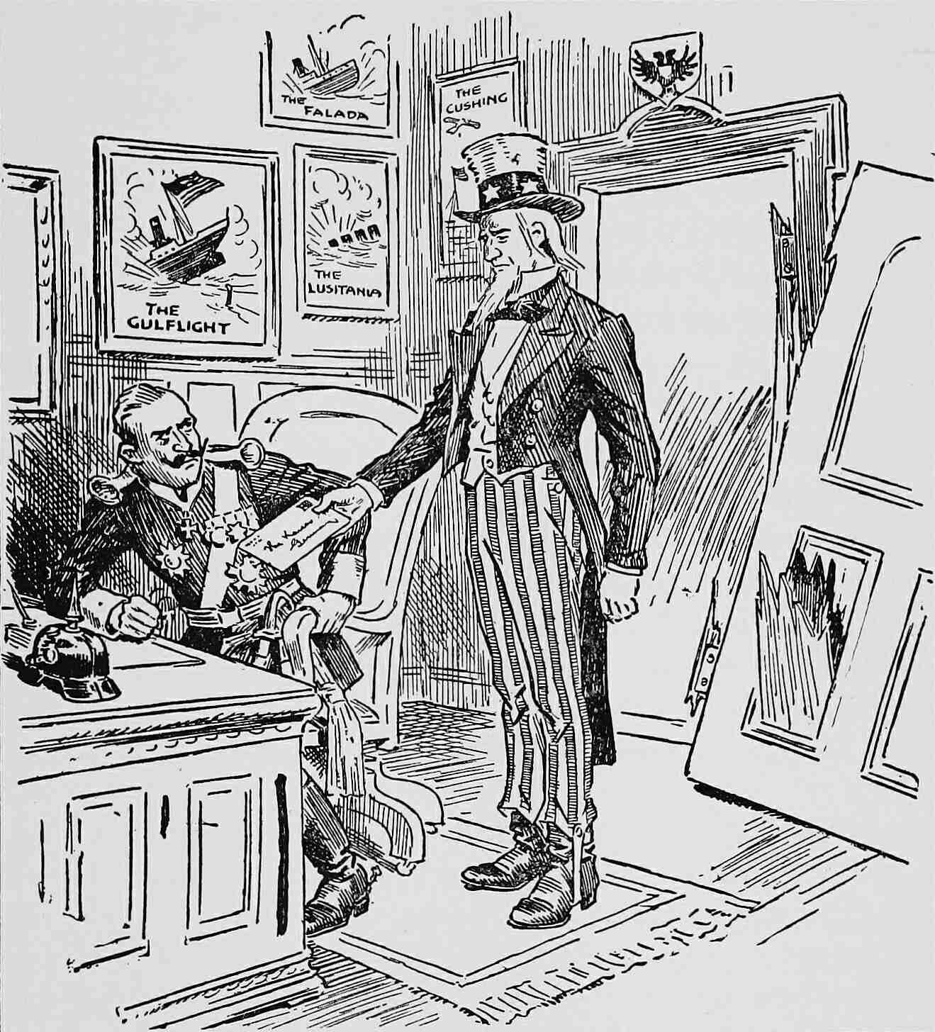 Cartoon depicting Uncle Sam delivering of a note from U.S. president Wilson to Germany protesting at the sinking by u-boat of ships carrying American passengers. The scene is depicted as the office of Kaiser Wilhelm II, who sits at his desk. The background shows trophy pictures of sunken ships the Lusitania, Gulfight, Falada and Cushing. The door is busted off its hinges, suggesting Uncle Sam forced his way in to deliver the message.